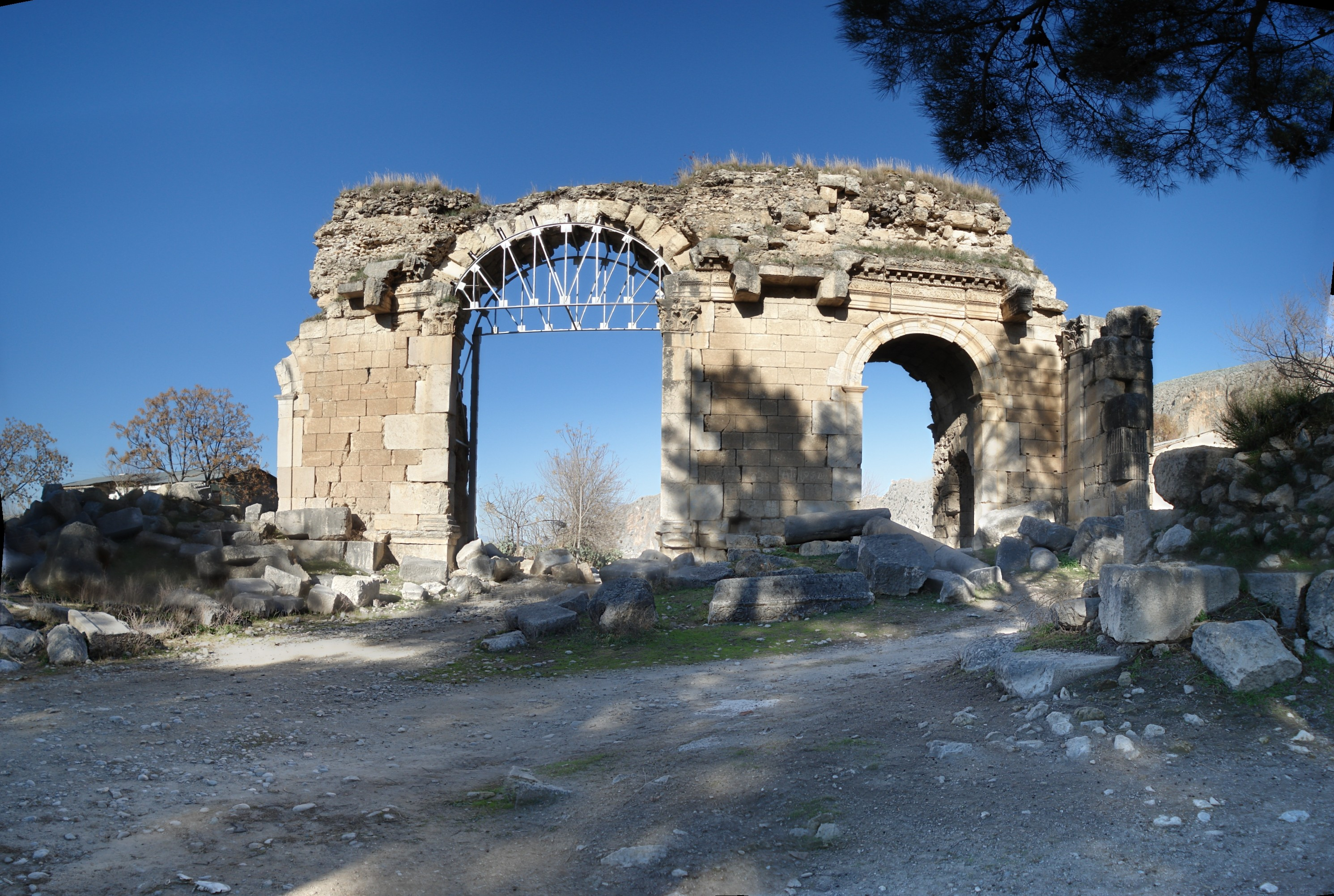 anazarbus klikya city south gate